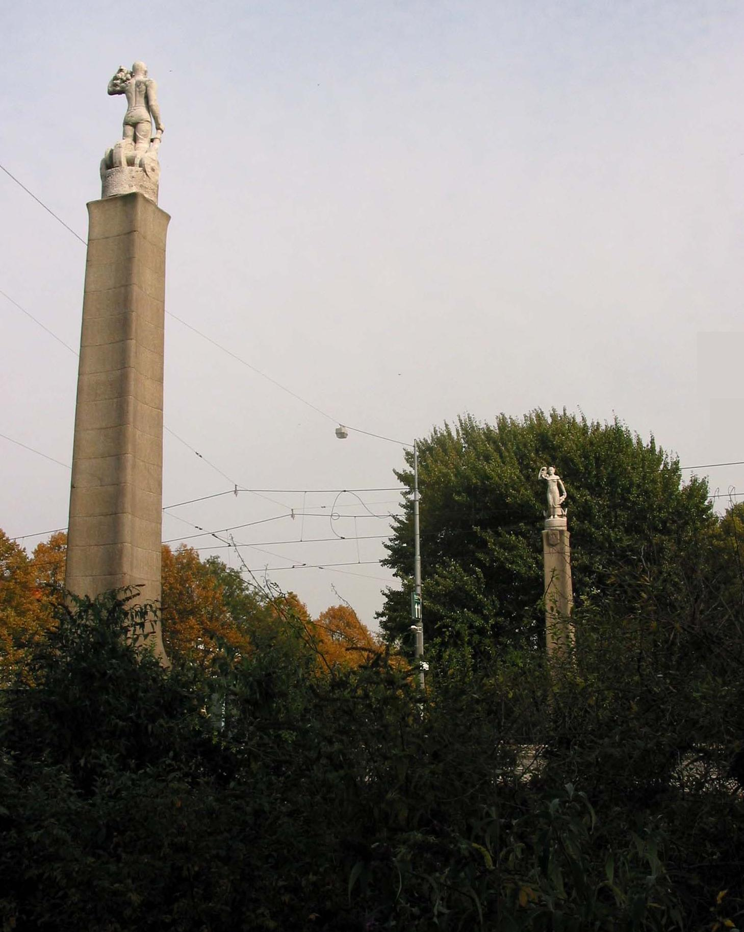 Hildo Krop. Man and Woman, Bridge 413, Amsterdam. Granite. Each 10 × 1.2 × 1.2 m. Amsterdam.